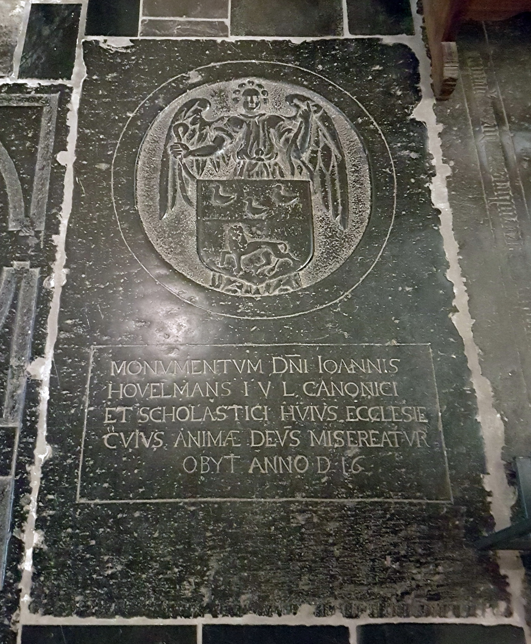 Ledger stone in the chapel of the Holy Heart of Jesus, the westernmost chapel along the north aisle of the Basilica of Saint Servatius in Maastricht, Netherlands. The grave belongs to the canon and schoolmaster (scholasticus) Joannis Hovelmans († 1616). The Latin text reads: monvmentvm dn̄i Ioannis / hovelmans ivl canonici / et scholastici hviv secclesie / cvivs animae devs misereatvr / obyt anno d 16.